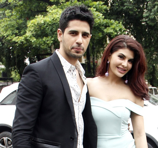 Sidharth Malhotra and Jacqueline Fernandez snapped promoting ‘A Gentleman’ at Mehboob Studio